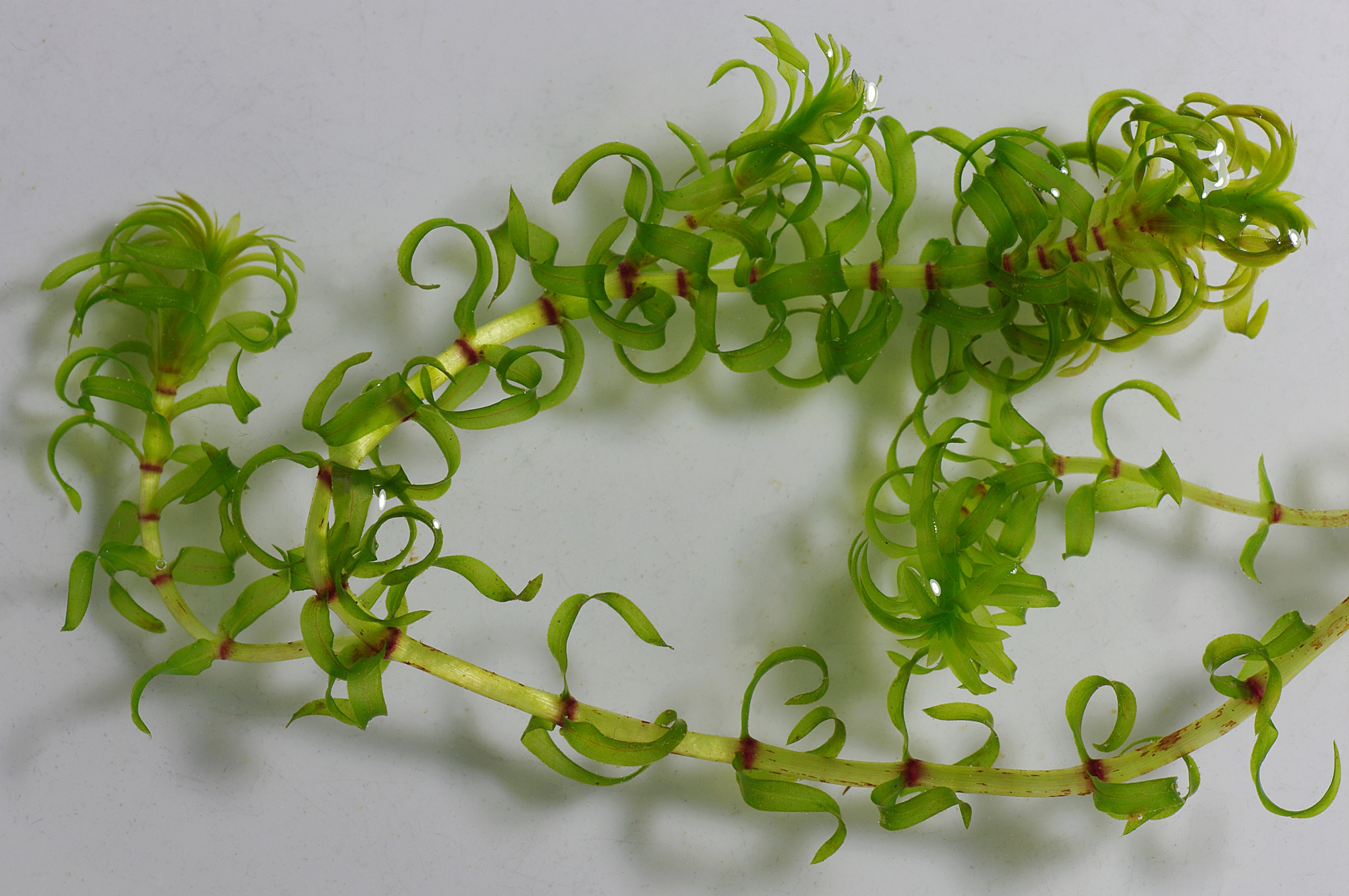 Parts of the Western Waterweed (Elodea nuttallii). Note the highly curved, twisted and pointed leaves.